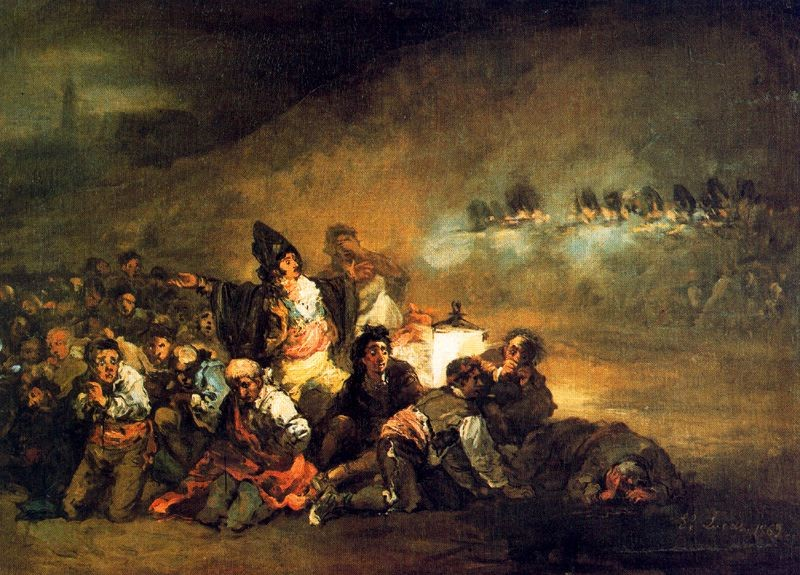 óleo sobre lienzo